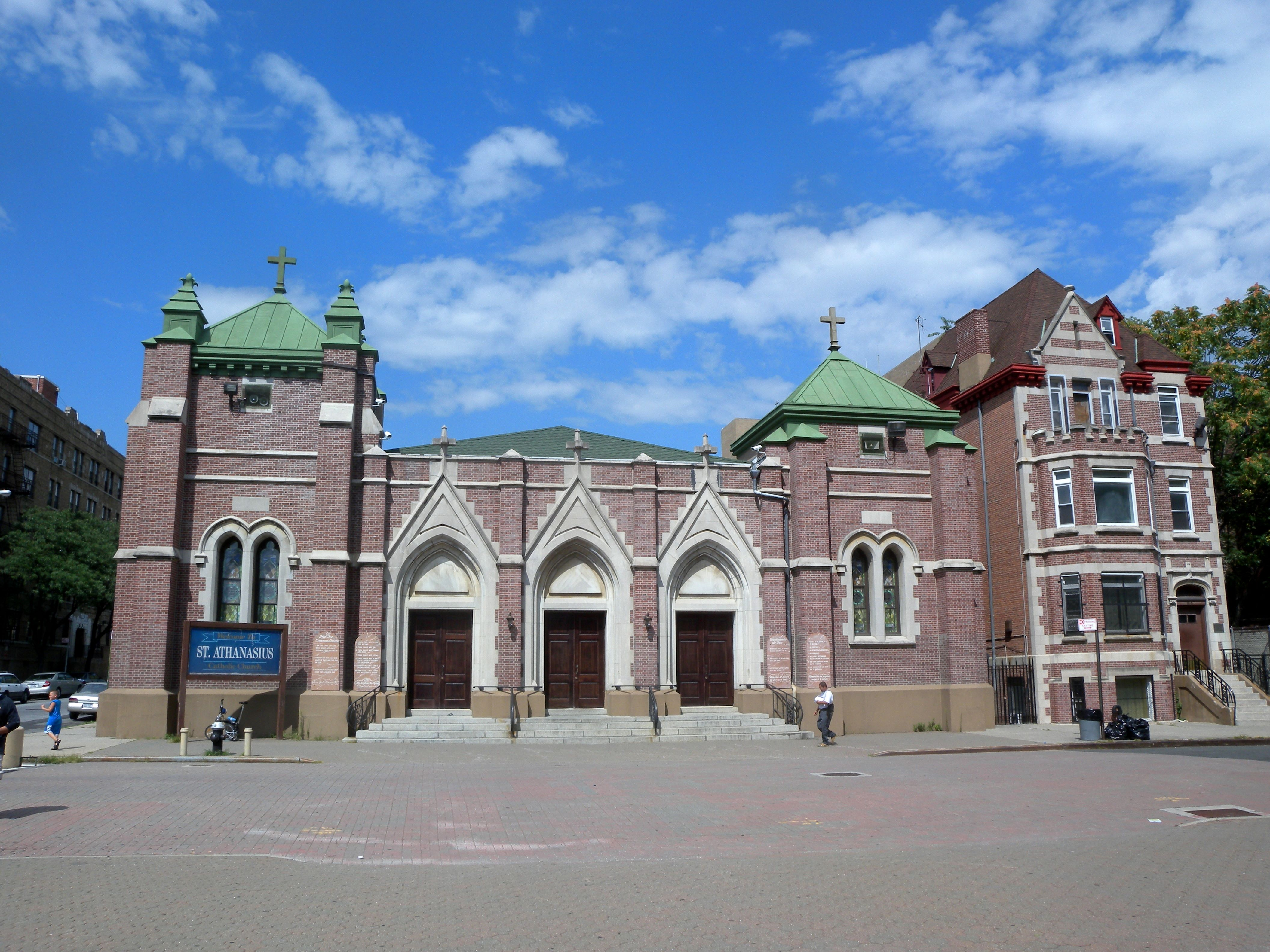 Looking north across Tiffany Street at St Athanisius RC Church on a mostly sunny early afternoon.